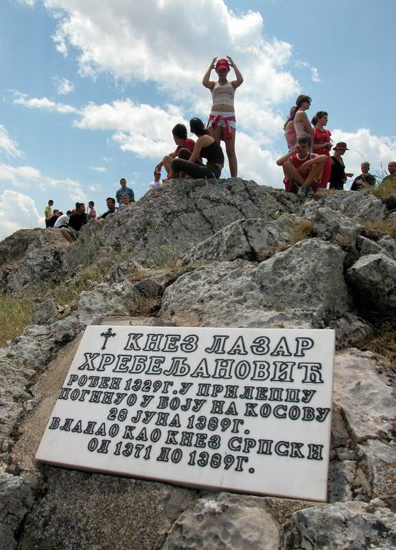 Table in remains of Prilepac fortress near Novo Brdo fortress to comemorate birth of knez Lazar in 1329.